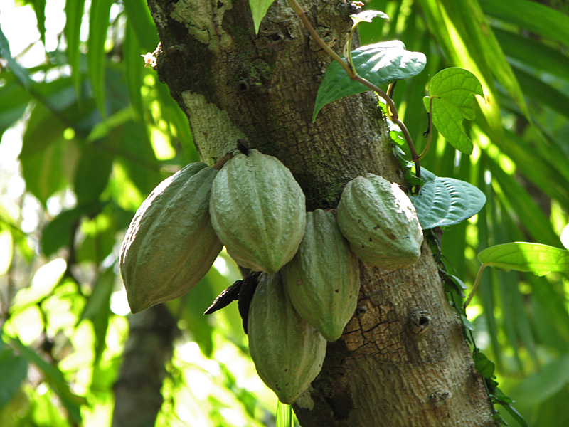 Journey of Chocolate begins here.